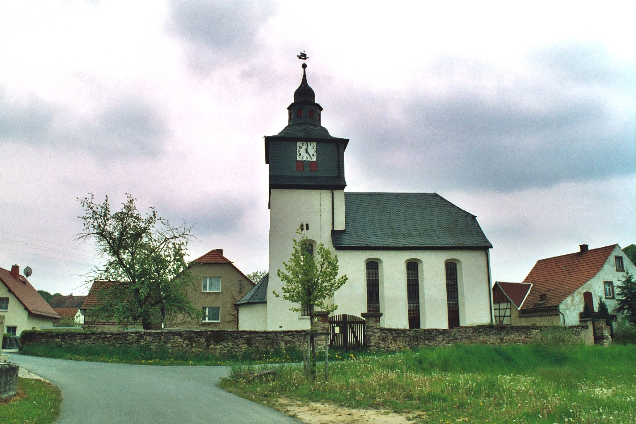 Burkersdorf (Harth-Pöllnitz), the village church